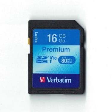 A Verbatim 16GB SD Card, purchased in late 2019.